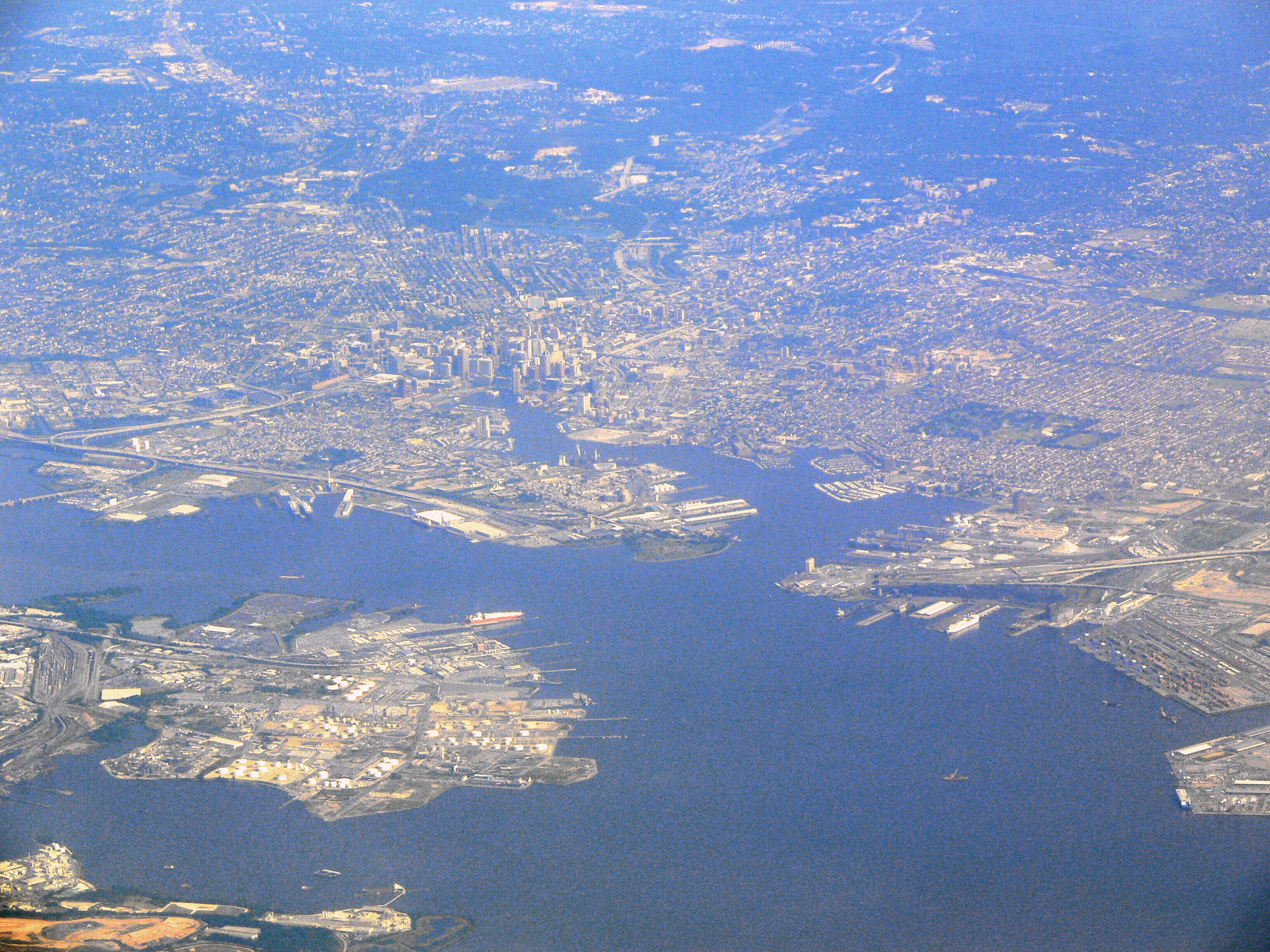 Baltimore, Maryland, seen from an airplane